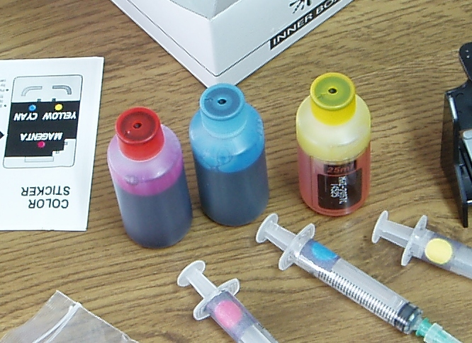 cropped from the photo on wikimedia commons